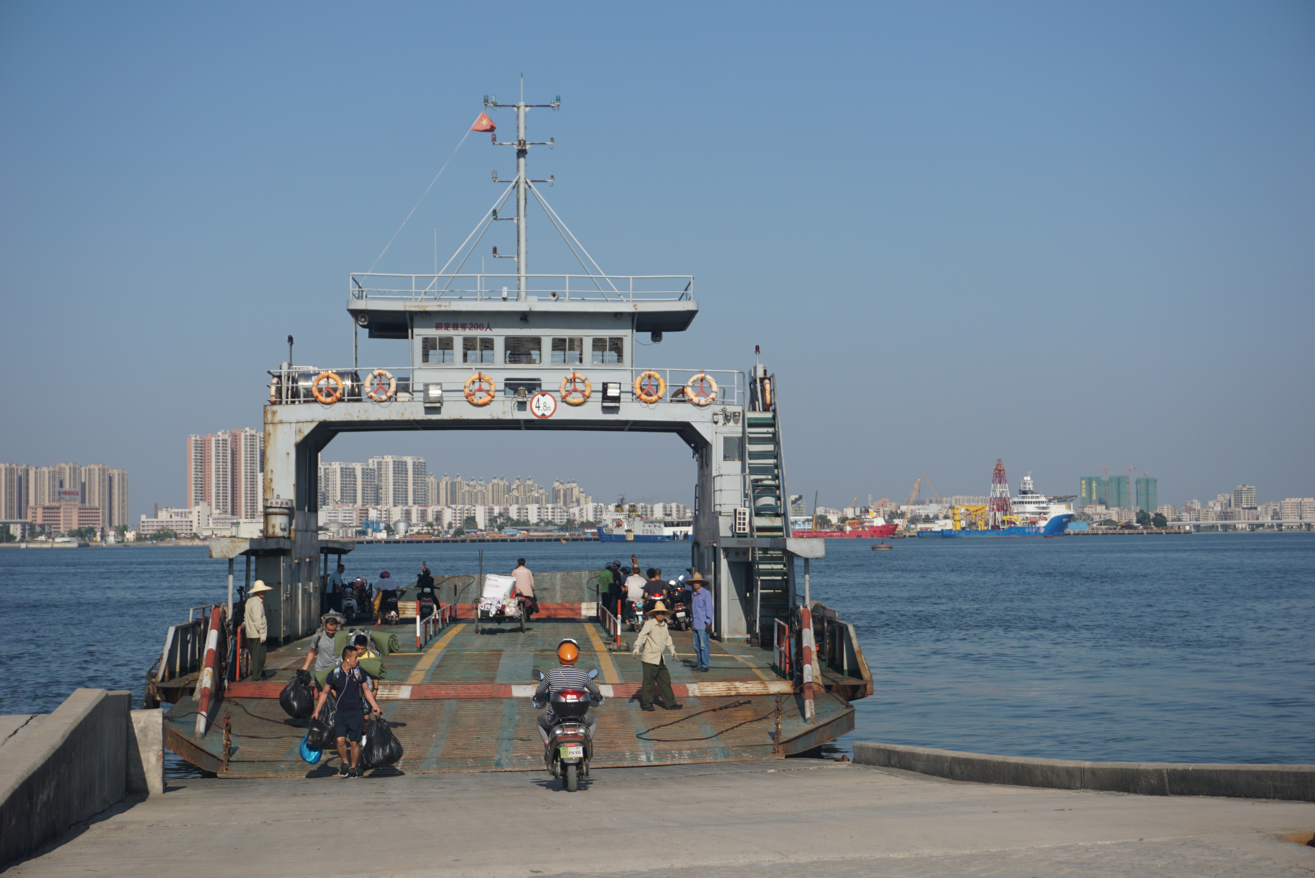 Cross-bay roll-on/roll-off ferry in Zhanjiang, Guangdong Province, though the ferry has lost most of its customers since the inauguration of the Bay Bridge, it still in operation for defence purpose.